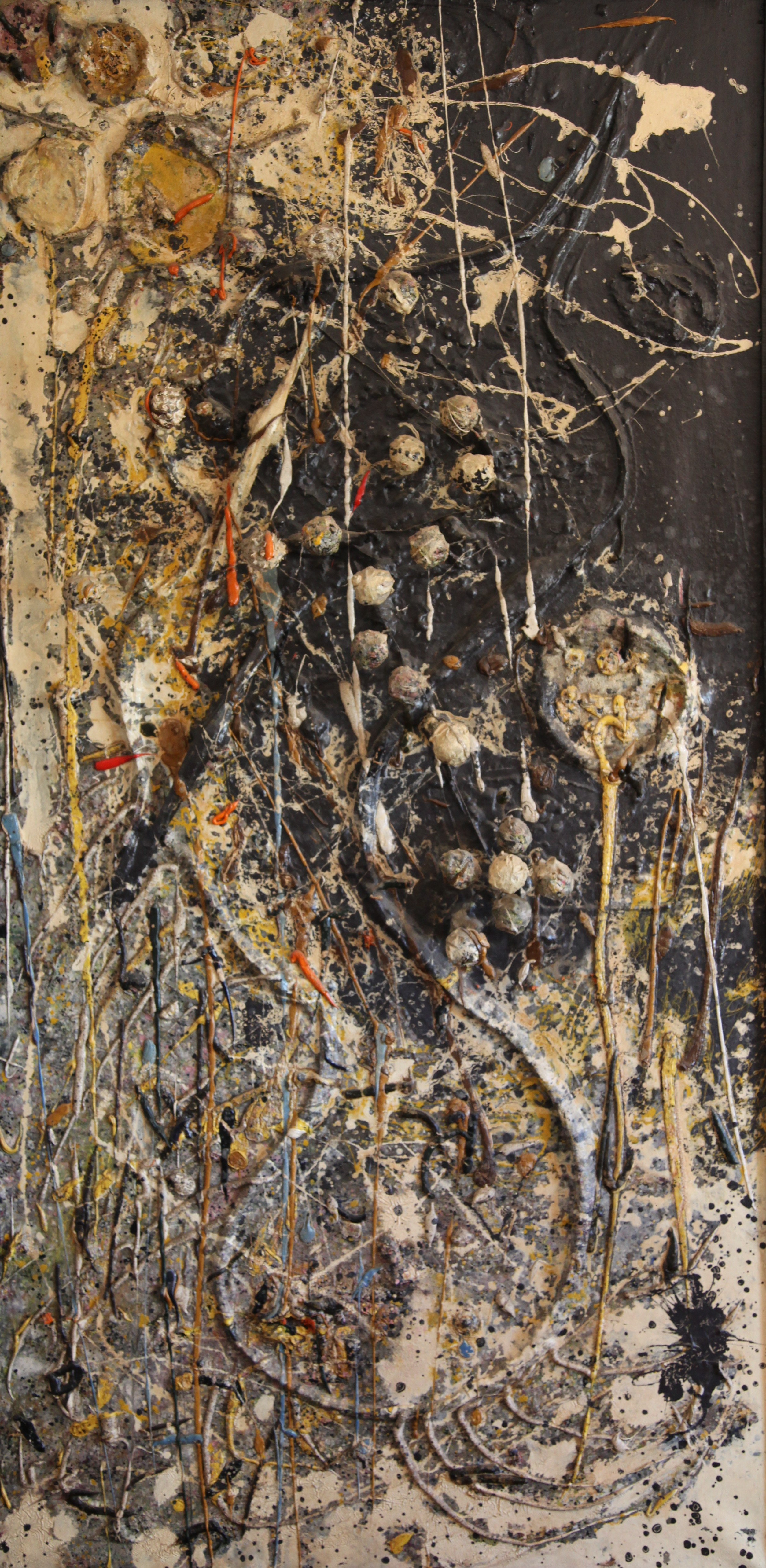 This assemblage painting by Christo Coetzee (1929-2000) is 182 by 91 cm and 11 cm deep. It consists mixed media on canvas, signed and dated on reverse 'Christo Coetzee 57'. A label on the reverse, affixed by Anthony Denney reads 'Painting Yellow by Christo Coetzee. The painting was acquired from the artist by Anthony Denney and is now in the collection of Jan du Toit, Cape Town.